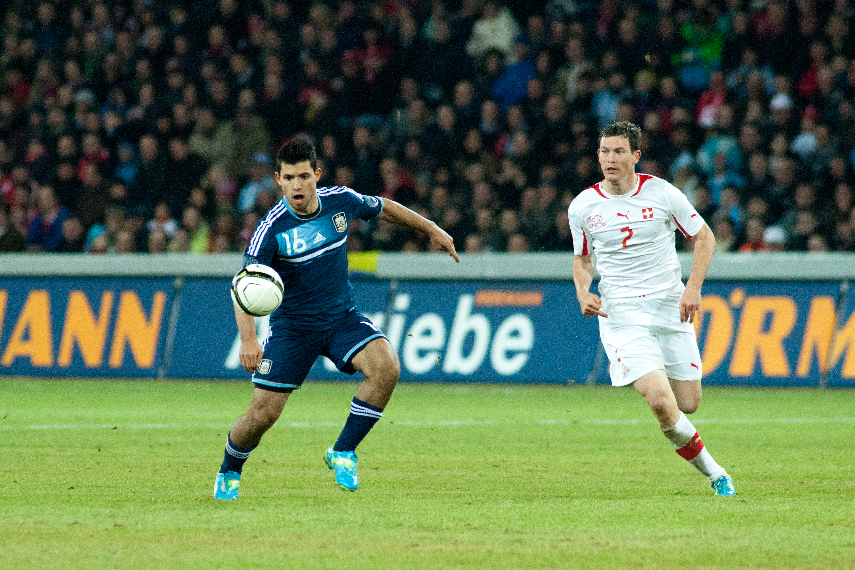 The making of this document was supported by Wikimedia CH. (Submit your project!) For all the files concerned, please see the category Supported by Wikimedia CH. Switzerland vs. Argentina, 29th February 2012